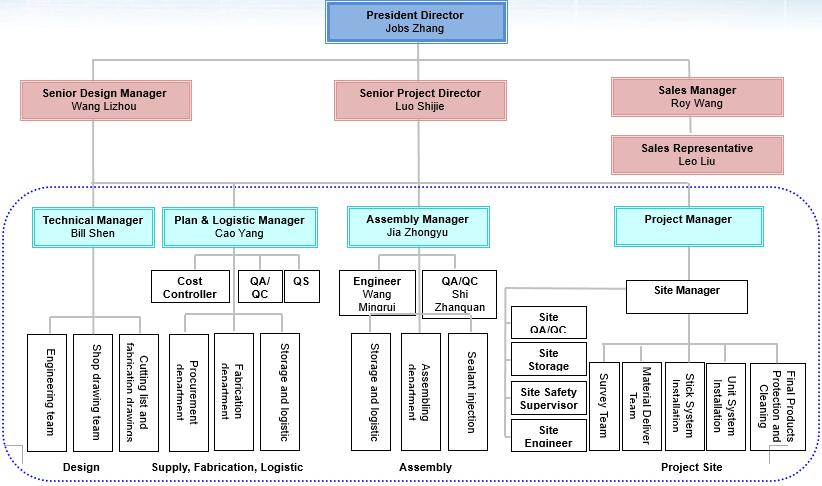 Org-Chart of PT.Shenyang Yuanda